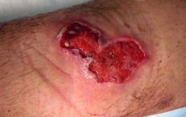 Buruli ulcer in a long-term traveler to Senegal.